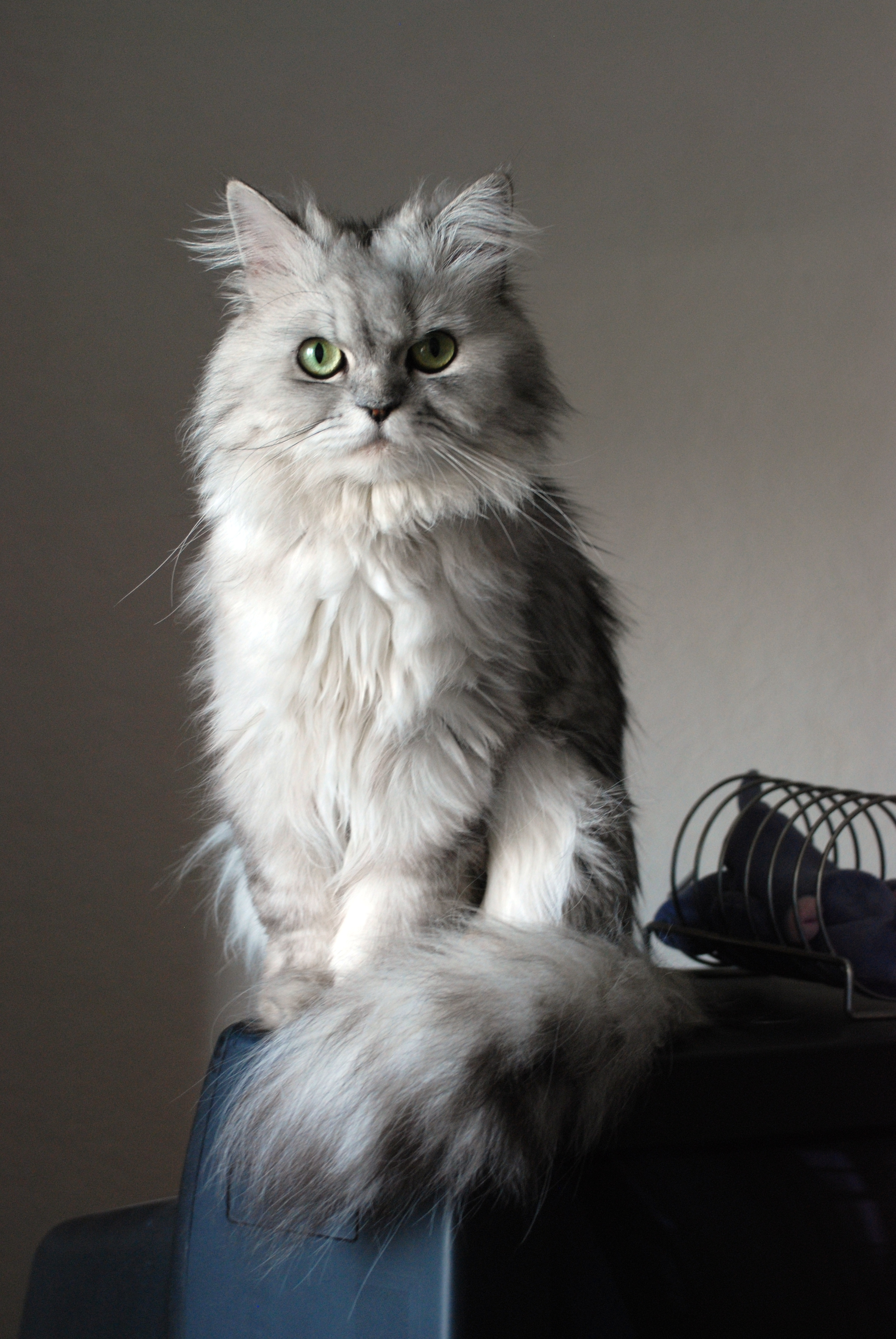 Doll face silver Persian cat